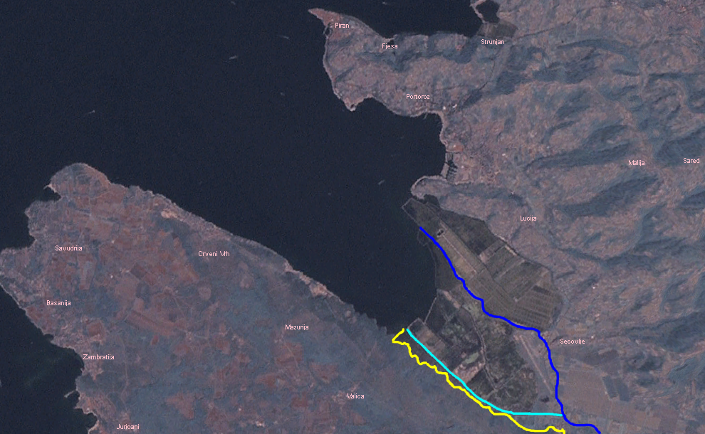 Satellite photo of Gulf of Piran.